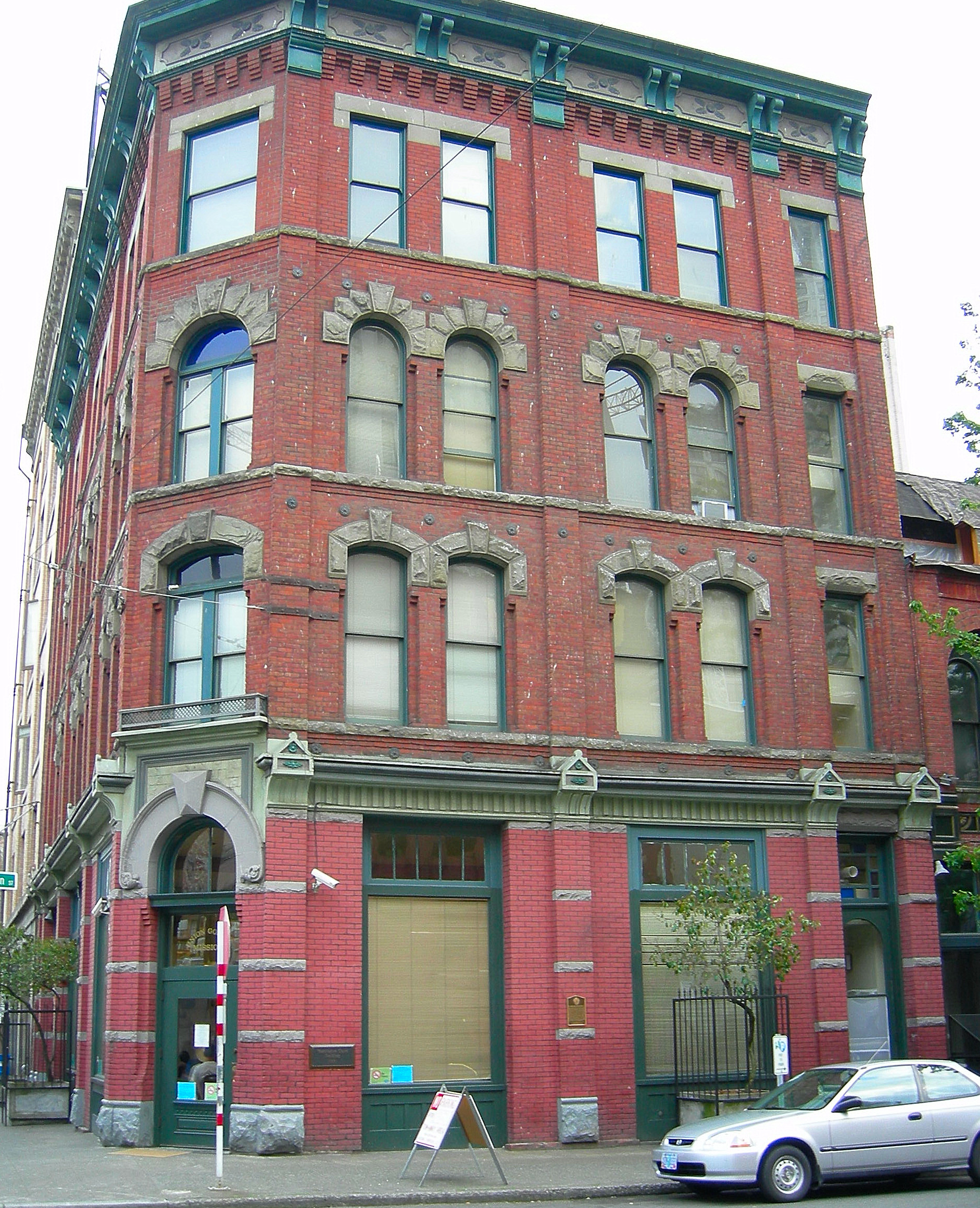 Washington Court Building, Seattle, Washington. The building, originally a brothel, is now (in part) a mission. See Lou Graham (Seattle madame). For more about the building, see Summary for 221 S Washington ST S / Parcel ID 5247800935, Seattle Department of Neighborhoods.